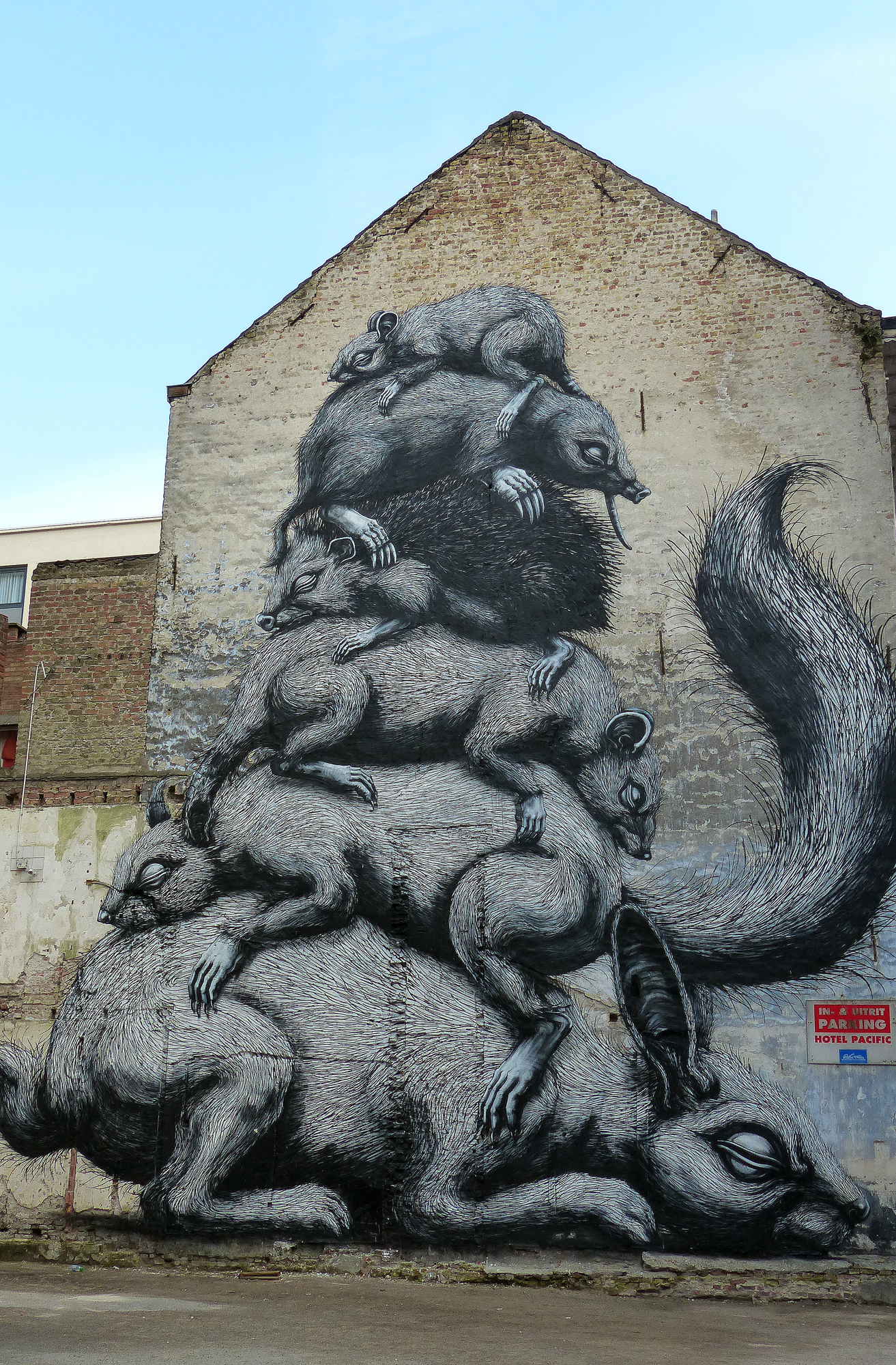 Mural of ROA - Crystal Ship Festival Ostende.